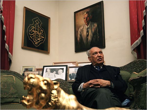 At his home.